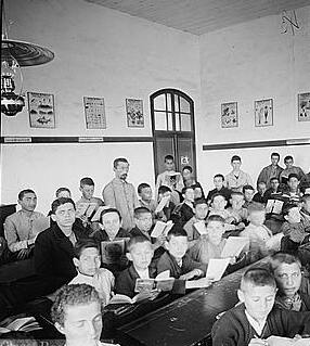 Mikveh_Israel_class_room